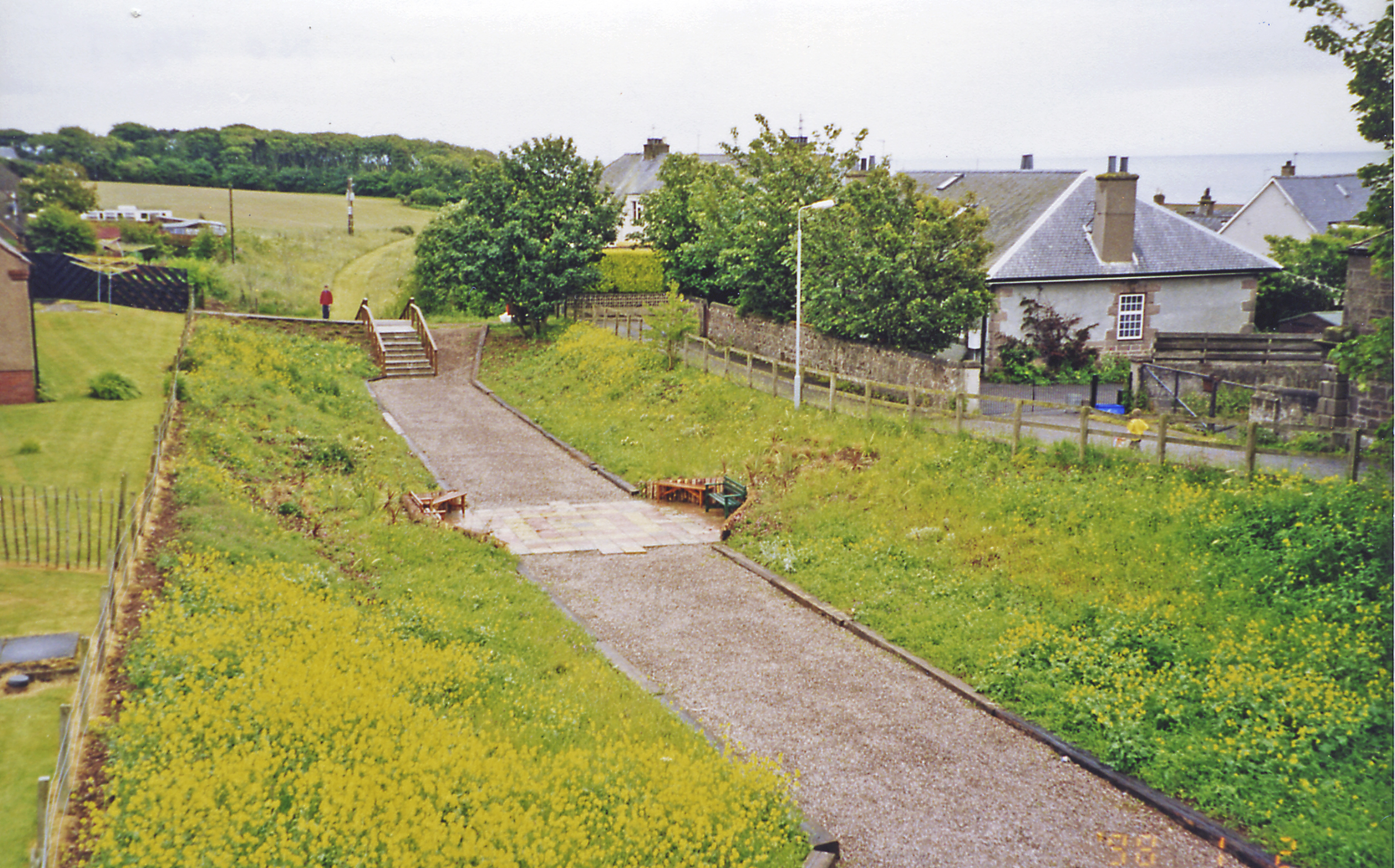 Site of former Johnshaven station, 2002. View eastward from New Road bridge, towards Inverbervie: ex-NBR Montrose - Inverbervie branch. The station was probably behind me: it and the line (parallel to Back Road) were closed to passengers 1/10/51, to goods not until 23/5/66. The track-bed seems to have been restored for recreational purposes.